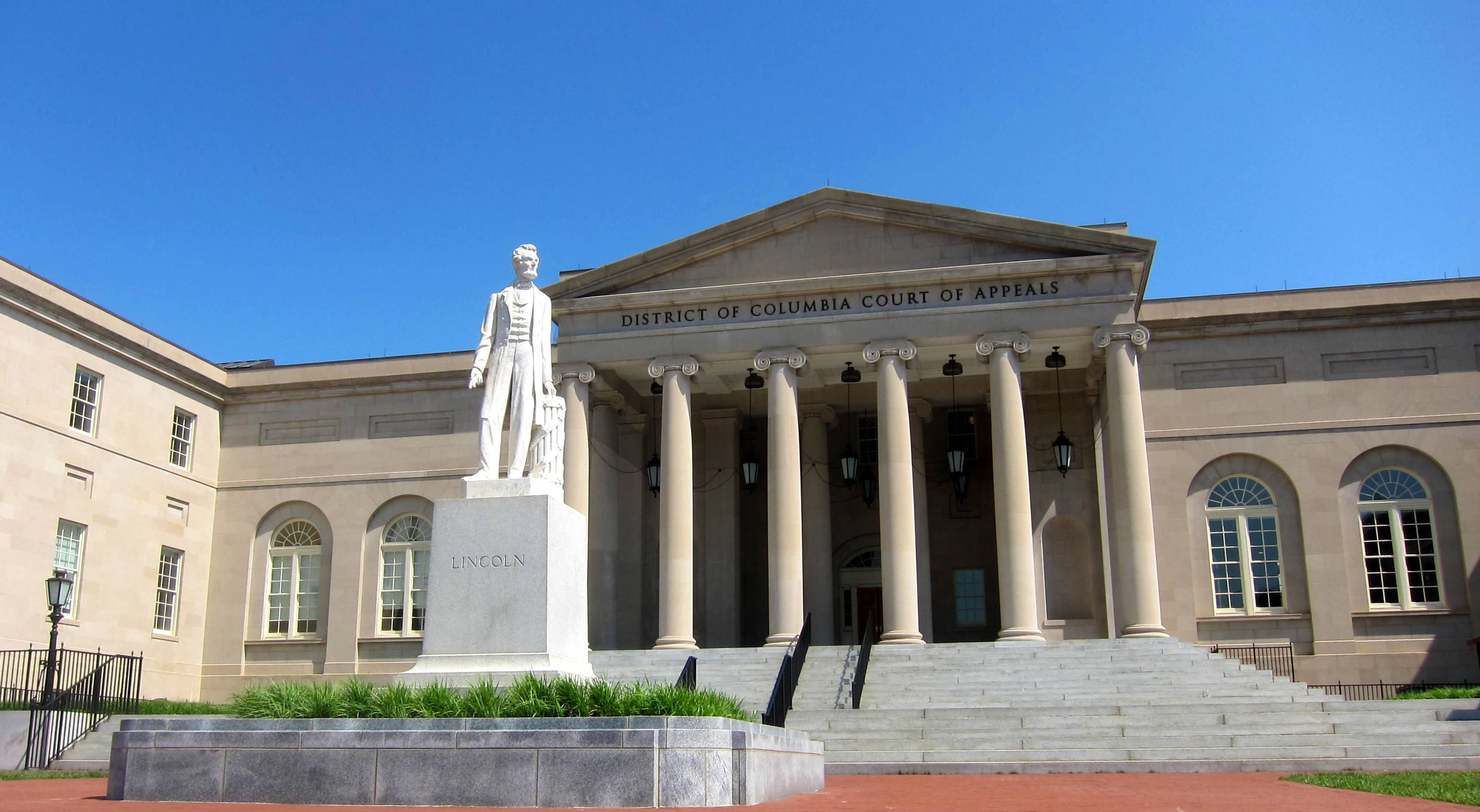 The District of Columbia Court of Appeals, historically known as District of Columbia City Hall and District of Columbia Courthouse, located at 451 Indiana Avenue, N.W., in the Judiciary Square neighborhood of Washington, D.C. Designed in 1820 by architect George Hadfield, the Greek Revival courthouse is designated as a National Historic Landmark. The marble statue (1868, Lot Flannery) honoring Abraham Lincoln is the country's oldest extant memorial to the assassinated president.